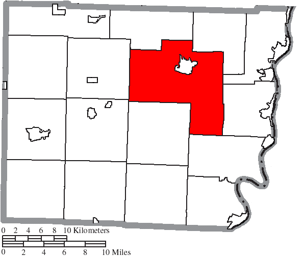 Map of the municipal and township boundaries of Belmont County, Ohio, United States, as of the 2000 census, with the location of Richland Township highlighted. Township borders are shown only in unincorporated areas in order to differentiate incorporated and unincorporated areas more clearly.